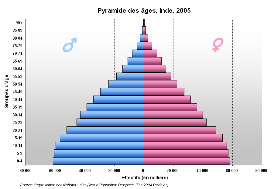 India Population pyramid, 2005